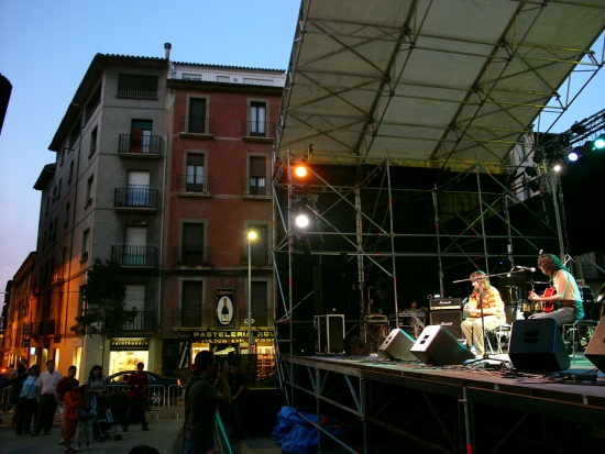 MMVV stage in Vic's Main Walk during Nuria Sala's gig